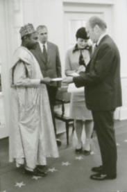 Ambassador Illa Salifou presents his credentials.